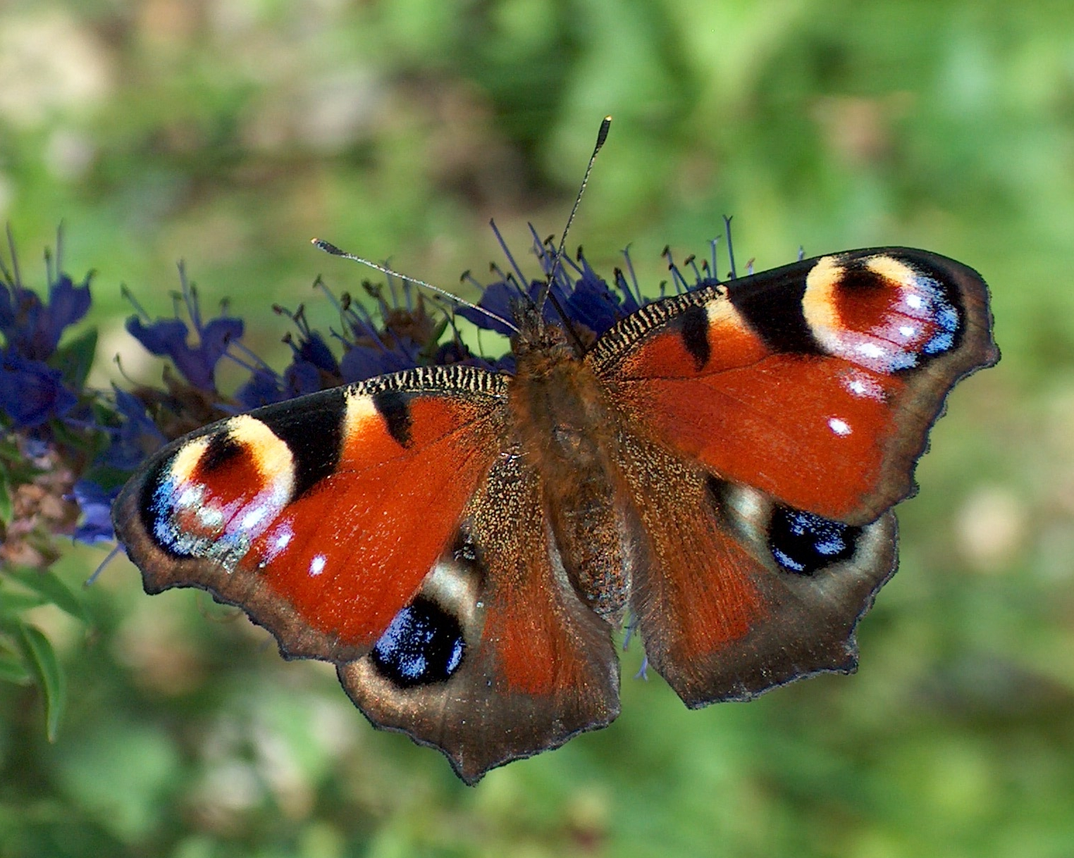 A Peacock butterfly (Inachis io).